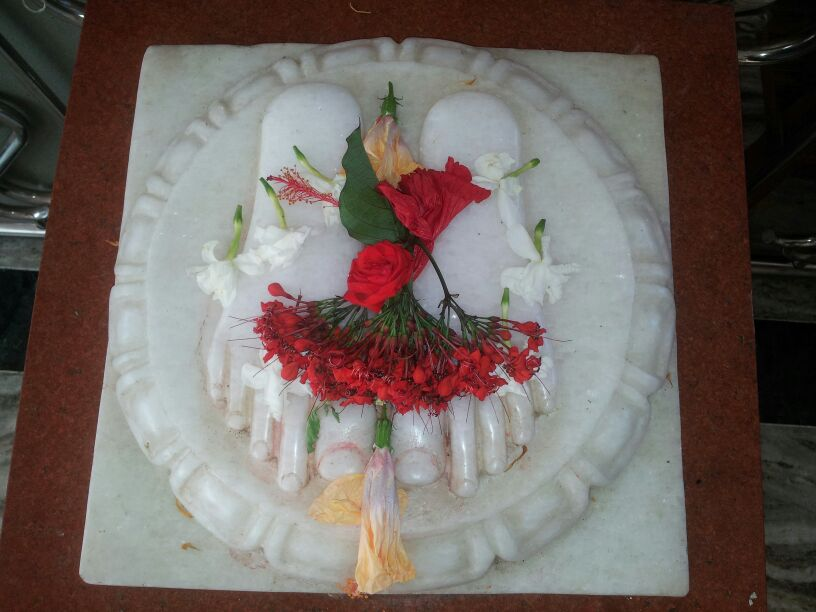 Pavitra Paduka of Saibaba